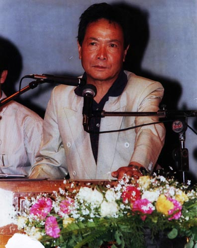 amber gurung concert photos